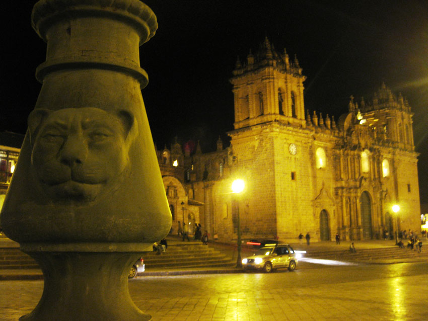 Cathedral at night, Plaza de Armas, Cusco